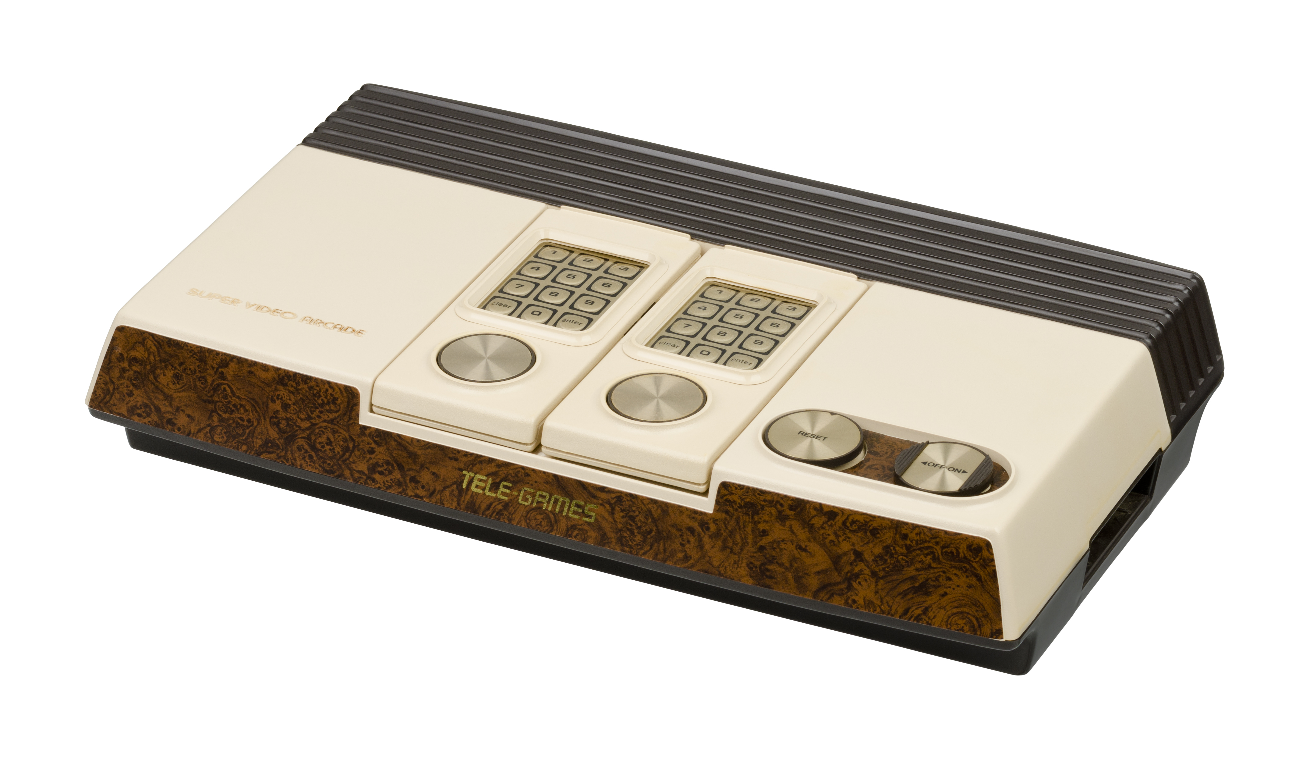 The Sear Tele-Games Super Video Arcade, a rebranded Mattel Intellivision that sold exclusively in Sears department stores.